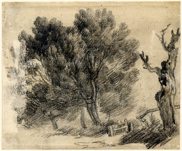 "Study of willows," drawing from a sketchbook by the British artist Thomas Gainsborough. Graphite. .